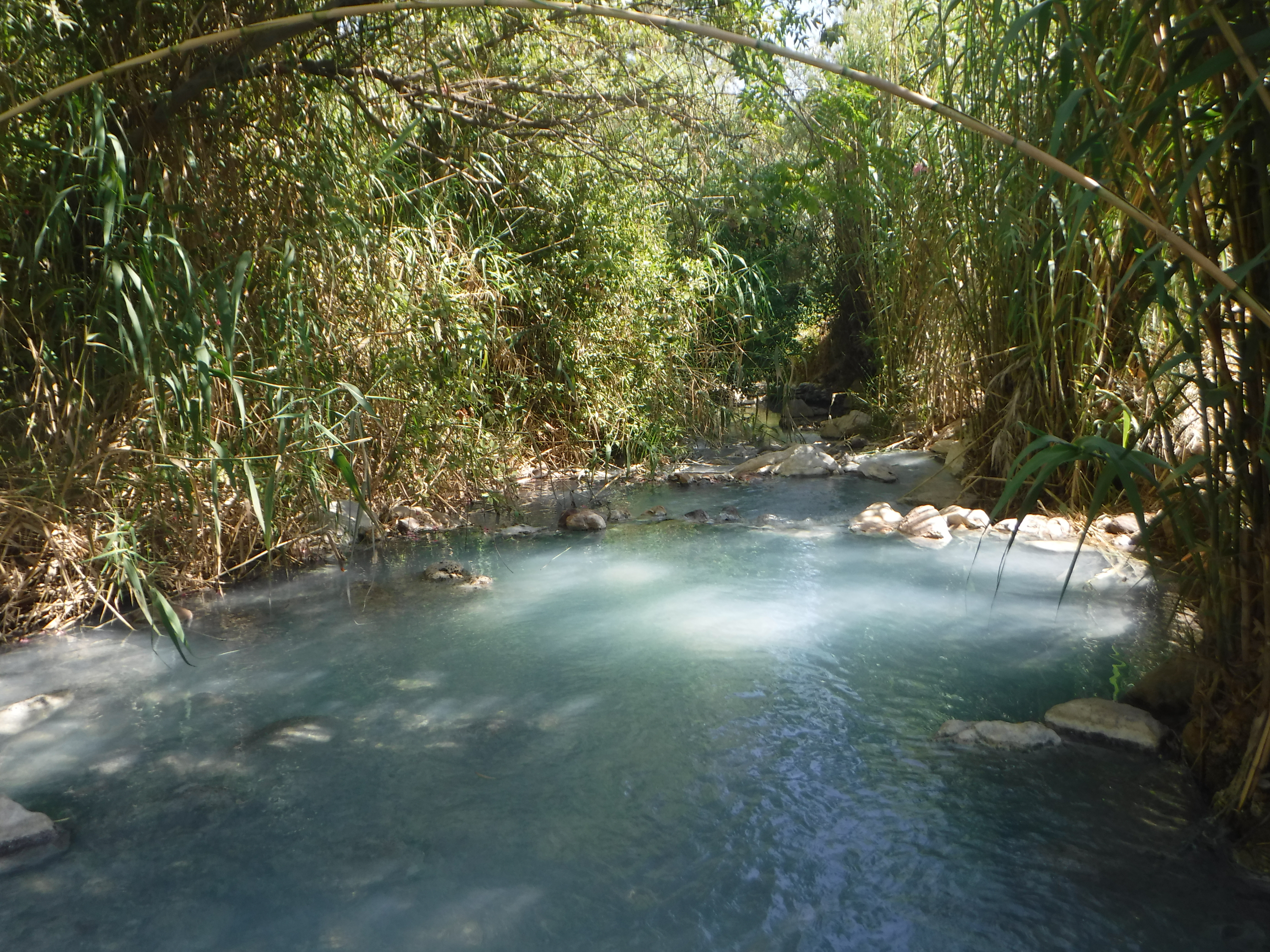 Manilva River